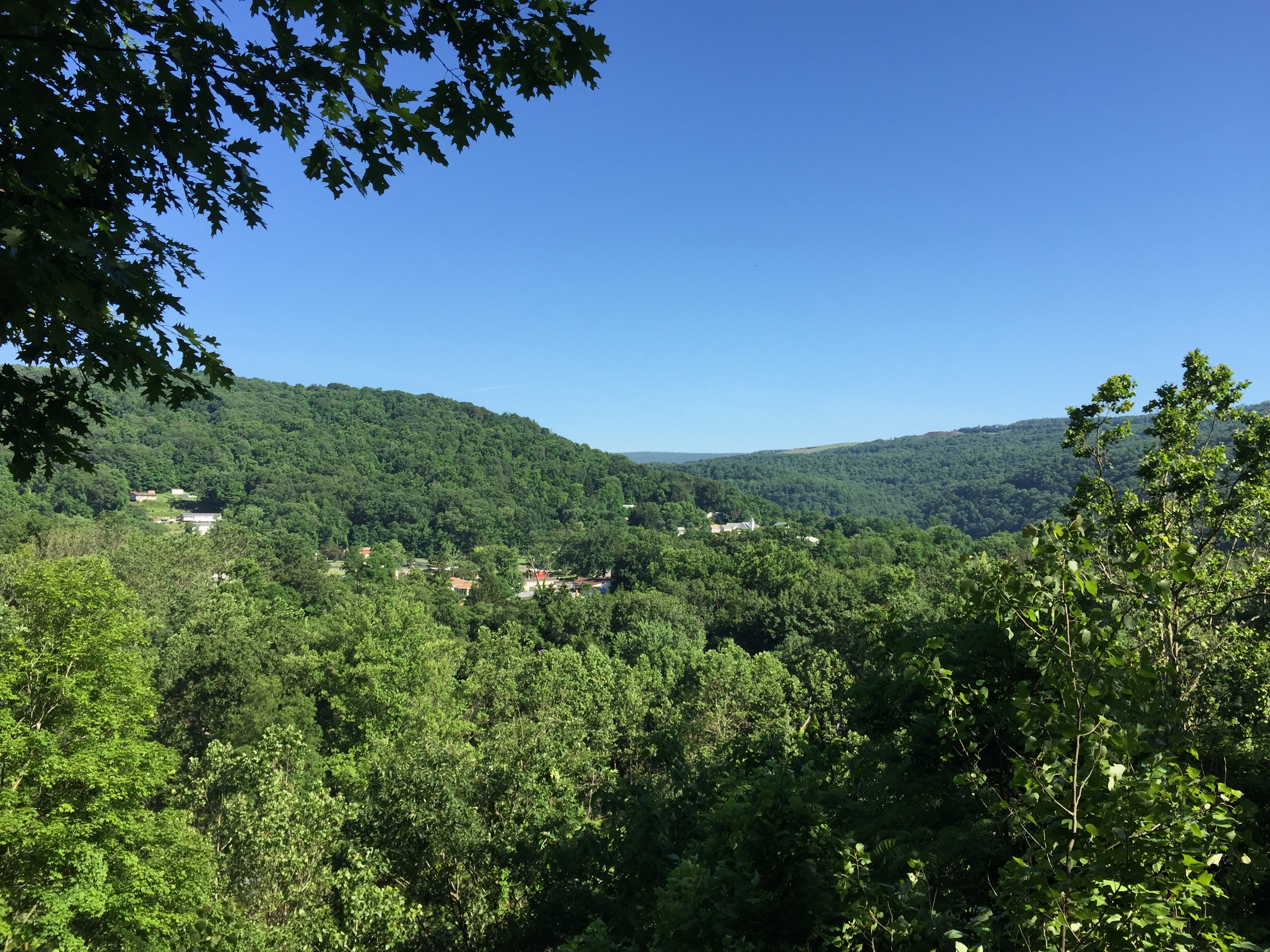 View of Bloomington, Garrett County, Maryland from West Virginia State Route 46 just across the North Branch Potomac River in Mineral County, West Virginia